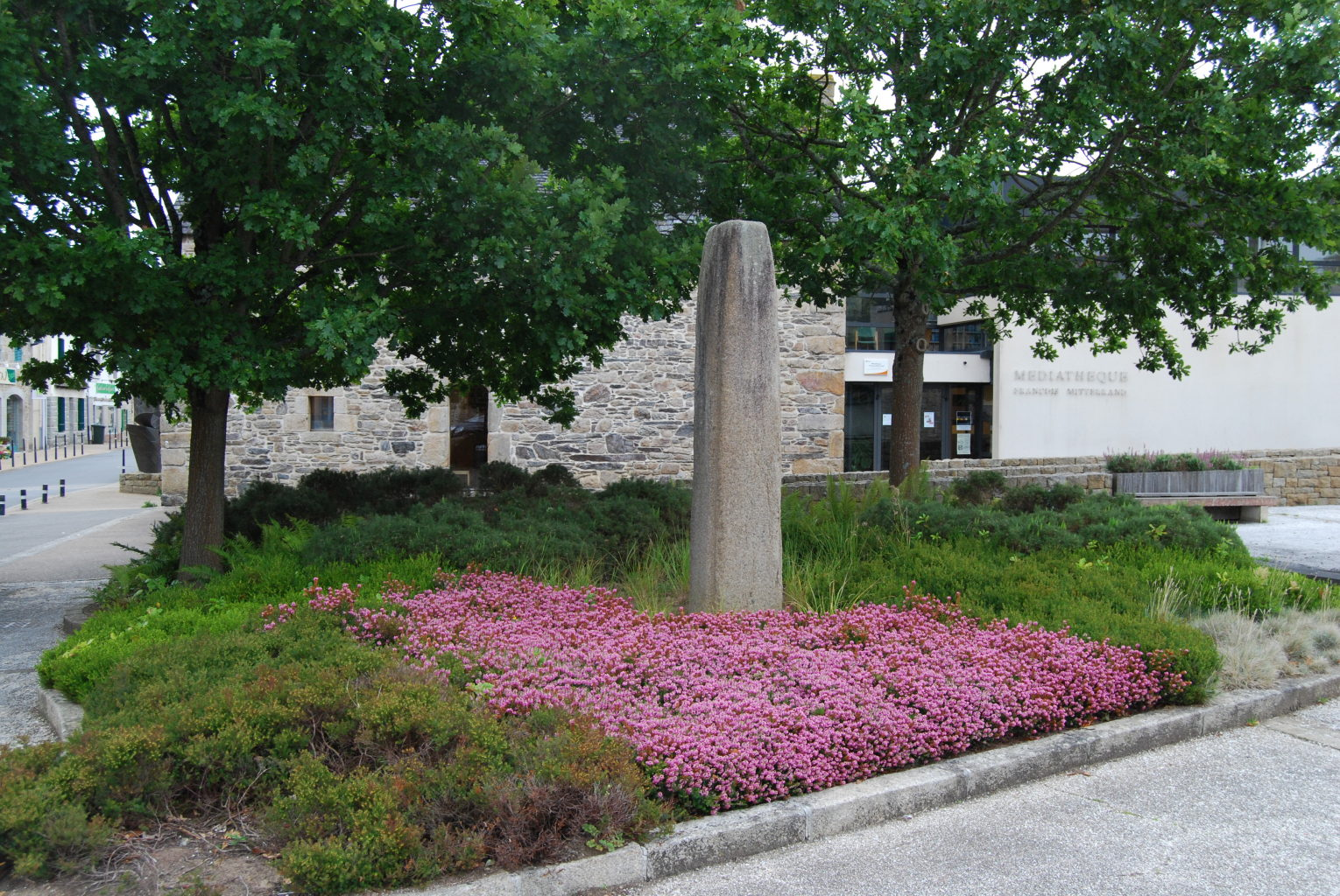 The Plourin-lès-Morlaix menhir was stele from La Tène culture.